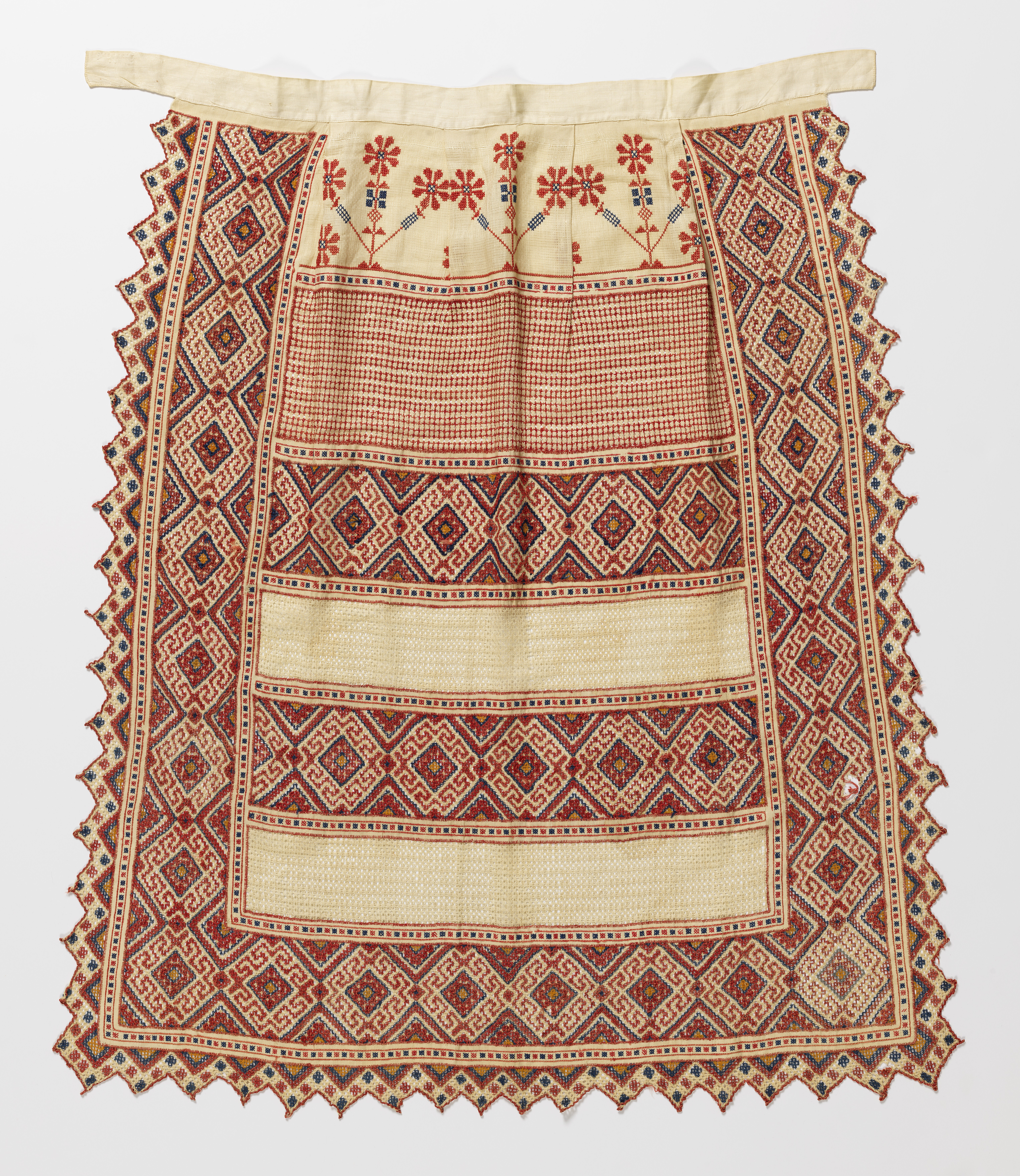 White linen apron with drawnwork and embroidery in colored cotton.